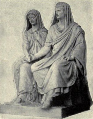 The Roman Marriage by Jean-Baptiste Claude Eugène Guillaume.